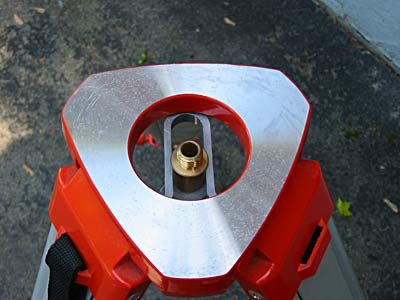 This is a photo of the head of a surveyor's tripod. The foot plate at the top supports the instrument. Through the opening in the plate, the mounting screw is seen. This holds the instrument in place.